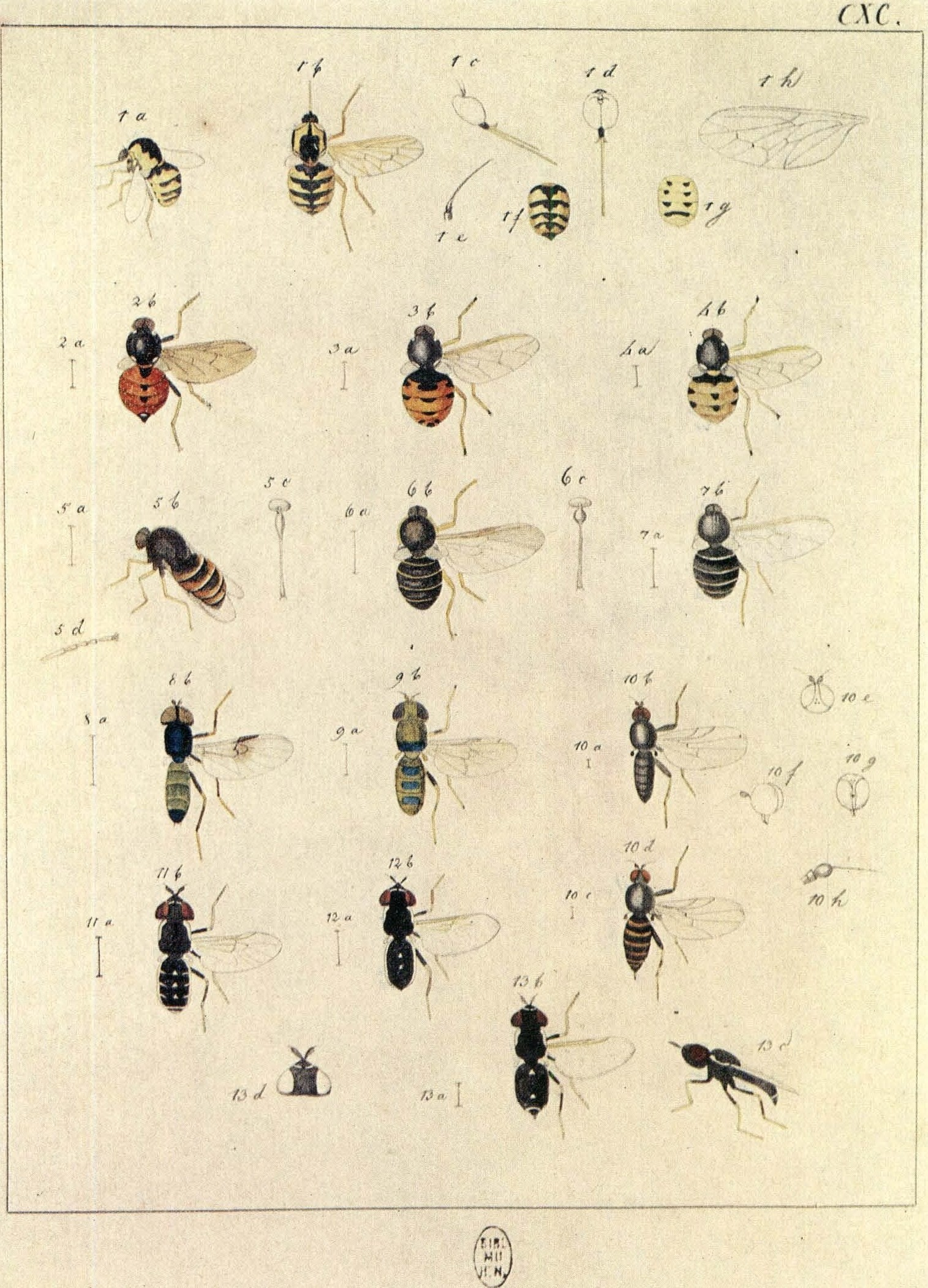 Johann Wilhelm Meigen, 1790 Abbildung der europäischen zweiflügeligen Insekten nach der Natur Von Joh. Wilh. Meigen zu Stolberg bei Aachen 1 Taf CXC plate text and continued Valid names and synonyms at Catalogue of Life (Annual Checklist) and Nomenclator.Types at MNHN collections database Note Europäischen Zweiflügeligen includes species described by previous authors - Linnaeus, Fallen, Wiedemann, Fabricius, Scopoli, Forster, Rossi, Macquart, Robert etc. 1 Cyrtus gibbus (Fabricius, 1794)(accepted name) Acroceridae 2 Acrocera (Acrocerina) nigrofemorata Meigen 1804 (accepted name) Acroceridae 3 Acrocera globula Panzer 1802 (synonym of Acrocera (Acrocera) orbiculus (Fabricius 1787) Acroceridae 4 Acrocera albipes Meigen, 1804 (synonym of Acrocera orbicula Fabricius, 1787 (accepted name) Acroceridae 5 Henops limbatus Meigen, 1822 (synonym of Ogcodes pallipes Latreille, 1811 (accepted name) Acroceridae 6 Henops apicalis Meigen, 1822 (synonym of Ogcodes varius Latreille, 1811 (accepted name) Acroceridae 7 Henops marginatus Meigen, 1822 (synonym of Ogcodes pallipes Latreille, 1811 (accepted name)Acroceridae 8 synonym for Sargus cuprarius (Linnaeus, 1758) (accepted name)Stratiomyidae 9 synonym for Microchrysa flavicornis (Meigen, 1822) Stratiomyidae 10 Drapetis (Drapetis) exilis Meigen 1822 Empididae 11 synonym for Nemotelus (Nemotelus) uliginosus (Linnaeus, 1767)Stratiomyidae 12 Nemotelus (Nemotelus) brevirostris Meigen 1822 Stratiomyidae